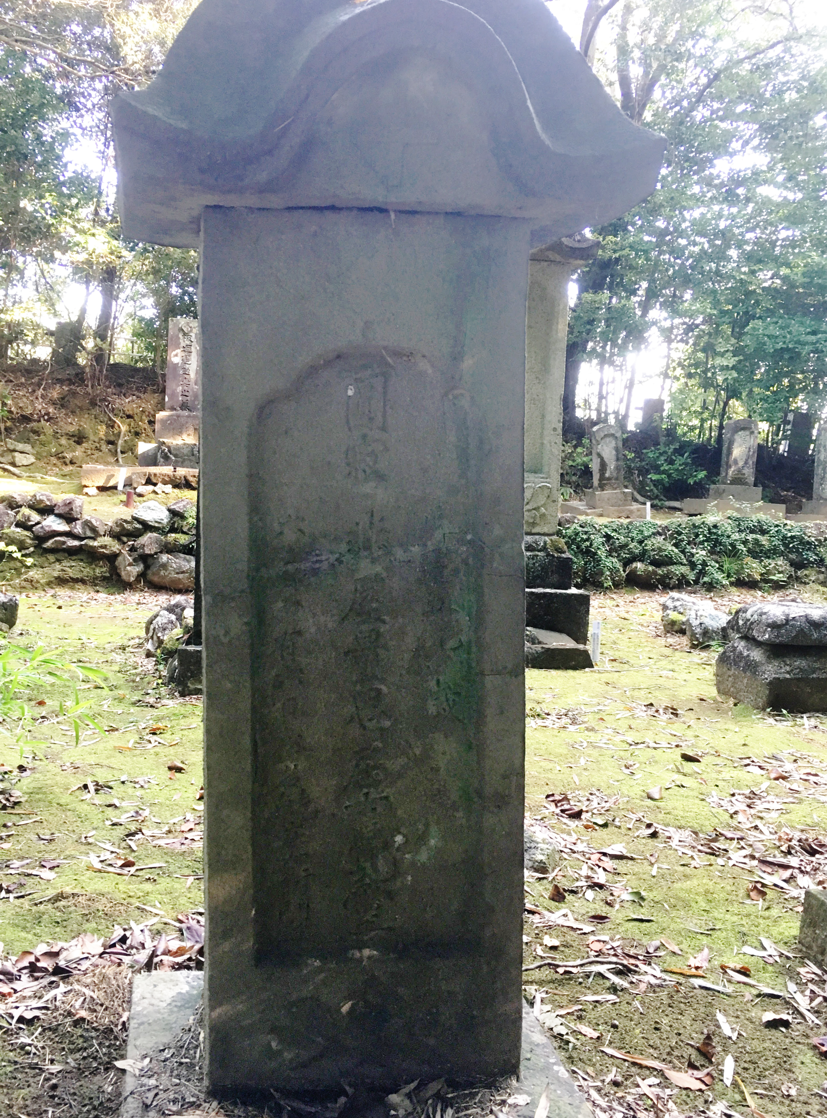 Tomb of Masakata Inui Itagaki ( -1715)